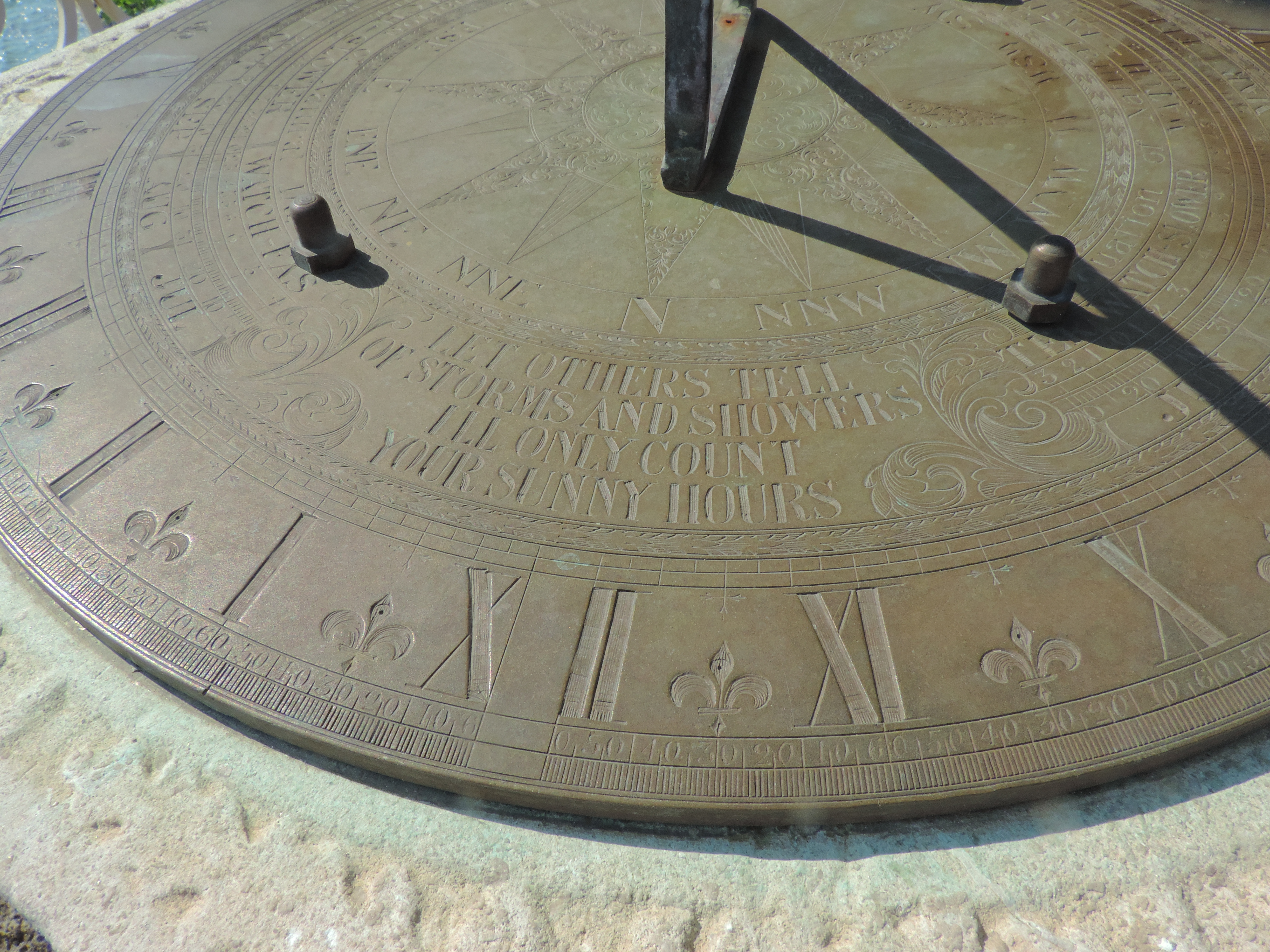 Euxinograd is a late 19th-century Bulgarian former royal summer palace and park on the Black Sea coast, 8 kilometres (5.0 mi) north of downtown Varna. The palace is currently a governmental and presidential retreat hosting cabinet meetings in the summer and offering access for tourists to several villas and hotels. Since 2007, it is also the venue of the Operosa opera festival. Euxinograd is situated at an altitude of 49 m. The park and palace were closed until the summer of 2016 due to extensive renovations.